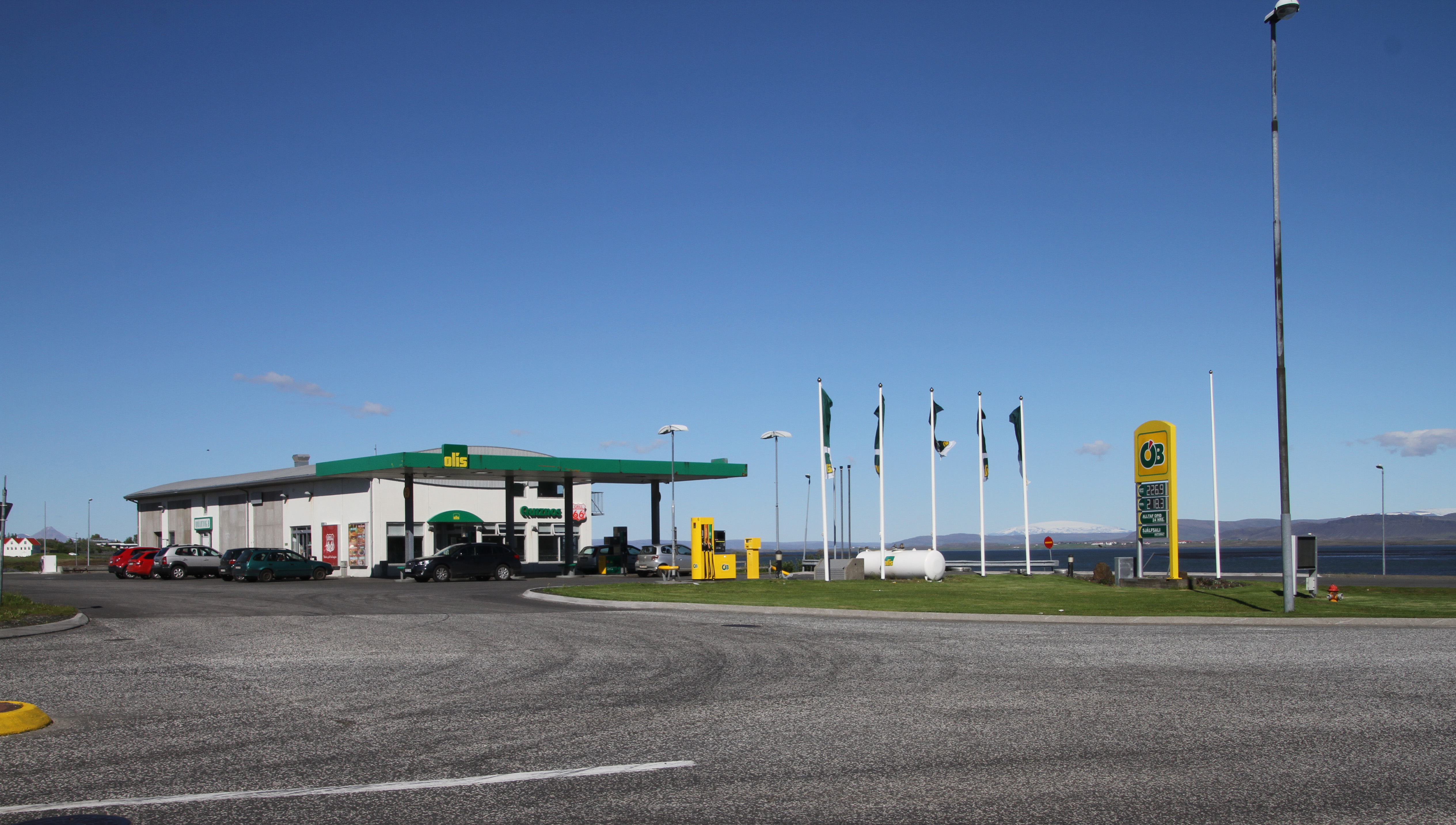 Petrol station in Borgarnes